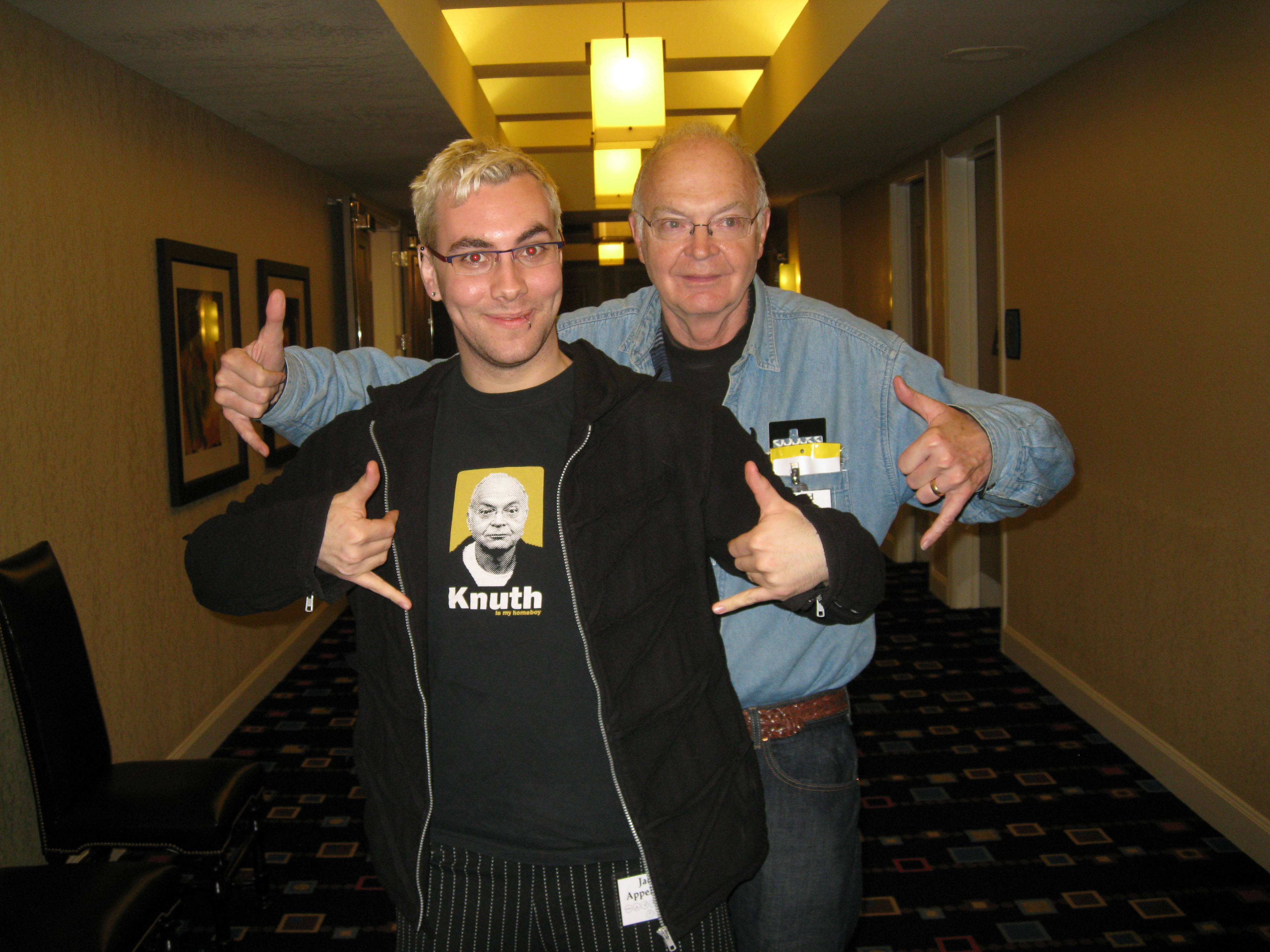 "Nested parens" — A photo depicting Donald Knuth.